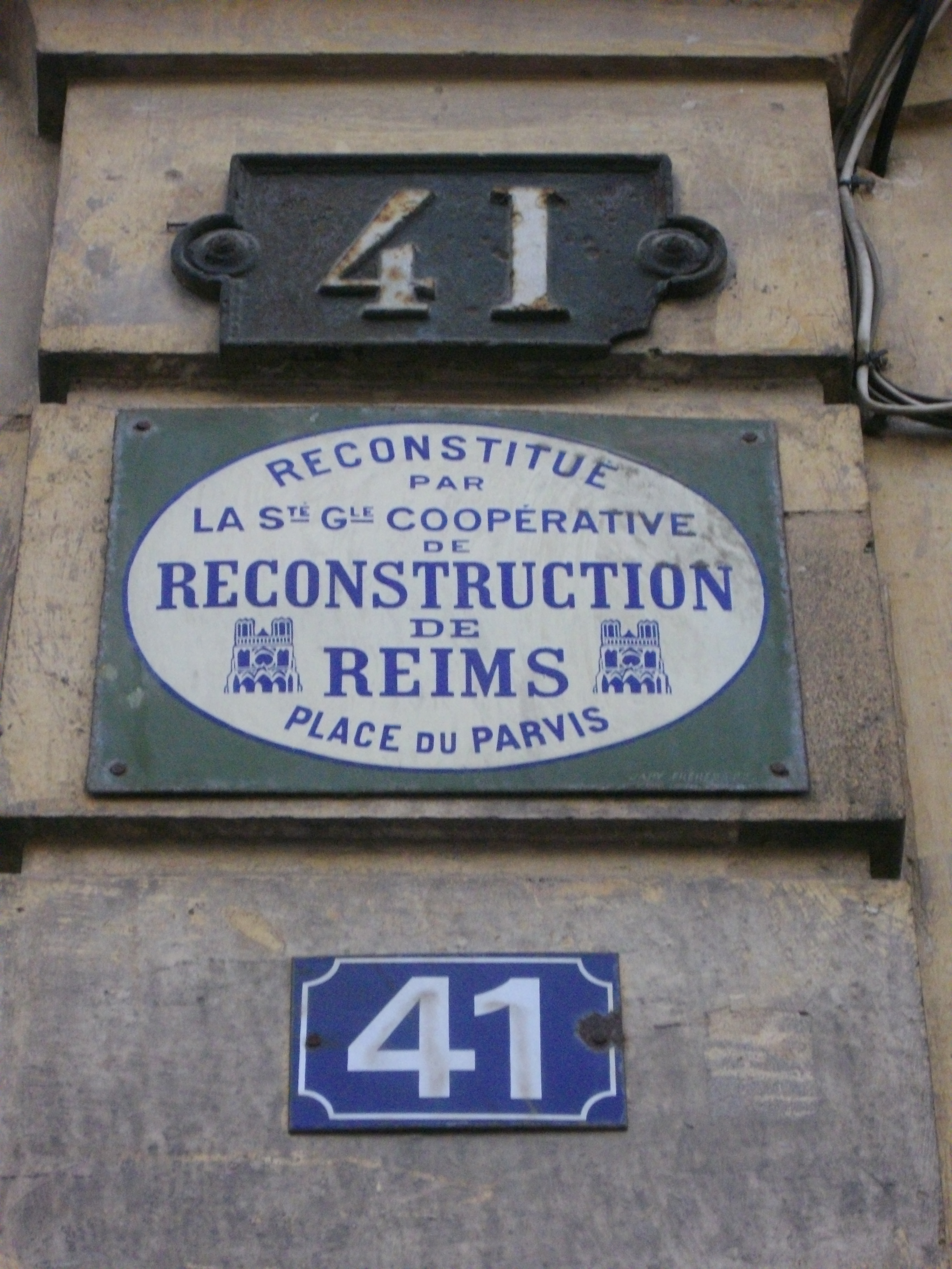 Reconstruction plaque on the building at 41 Camille Lenoir street, in Reims (Marne, France)